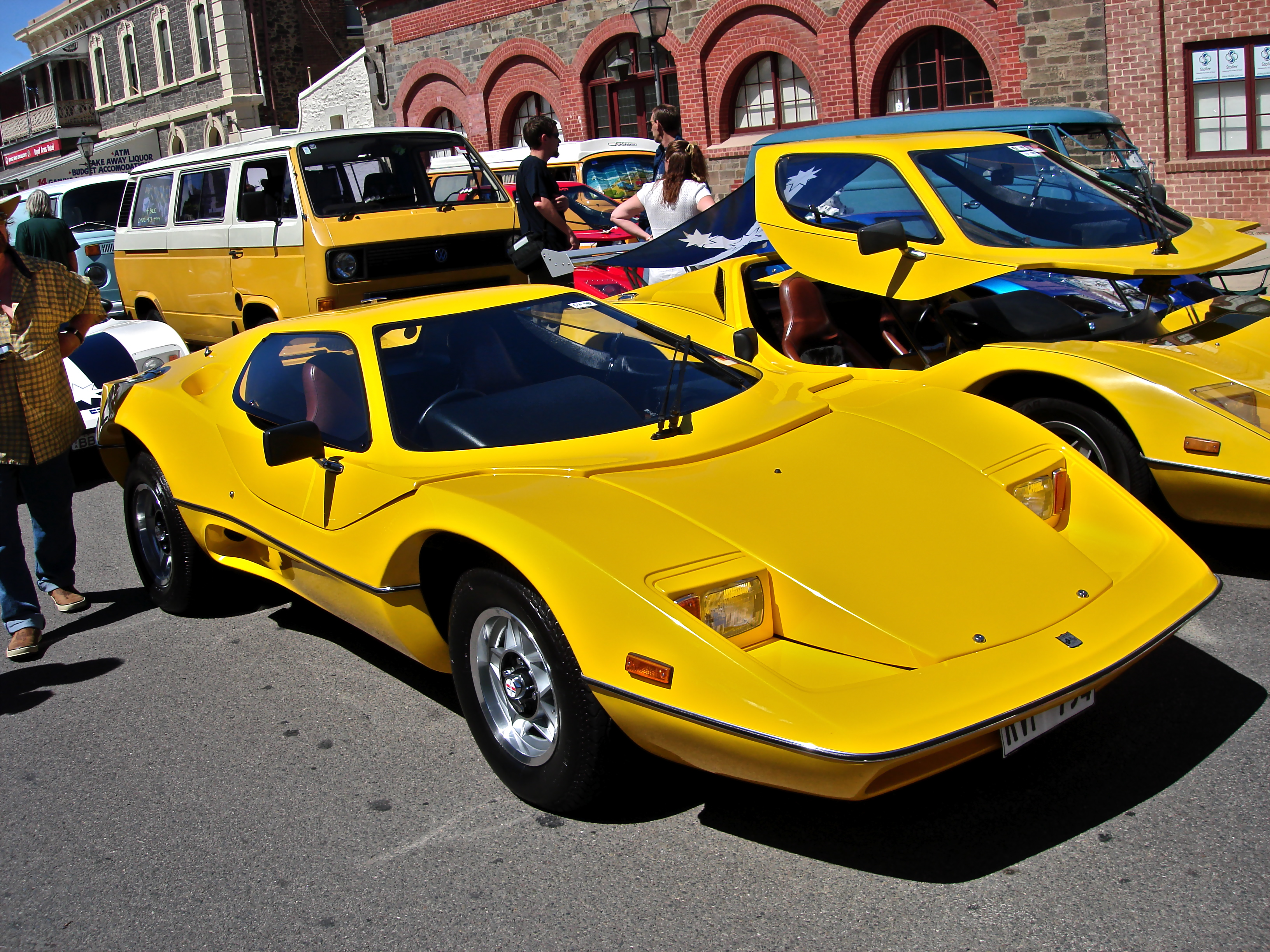 Yellow Purvis Eureka at the Volksfest 2008 celebrated on Saint Vincent Street, Port Adelaide.